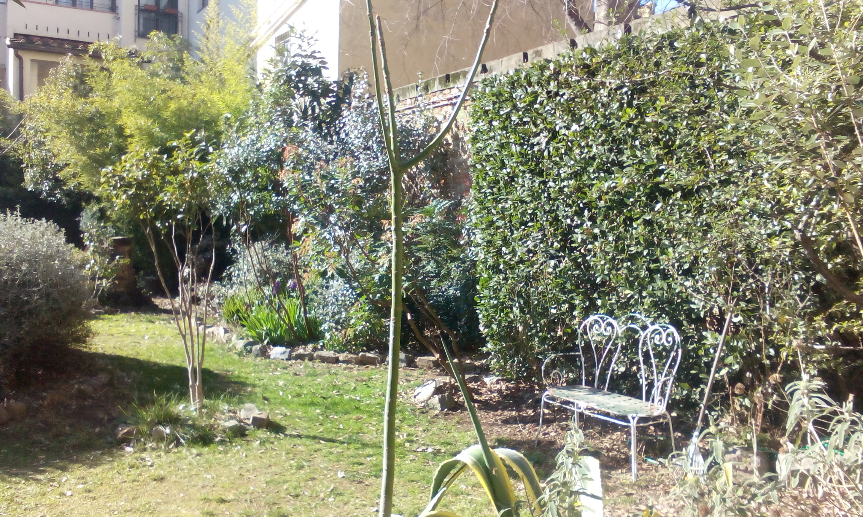 Fossombroni's garden